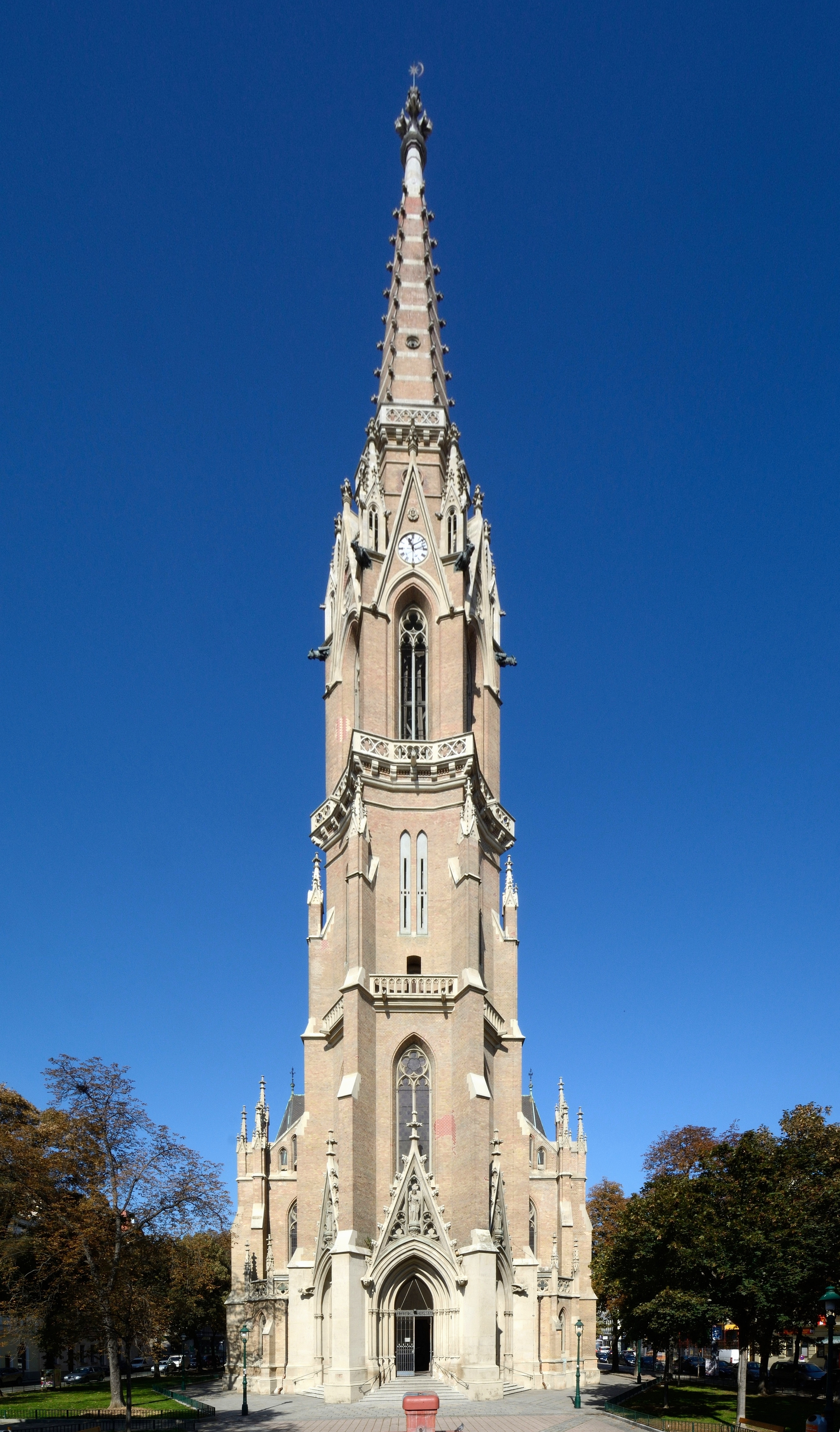 Katholic parish church St. Othmar unter den Weissgerbern, 3rd district of Vienna